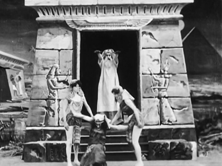 Frame from the 1906 Georges Méliès film L'Oracle de Delphes.